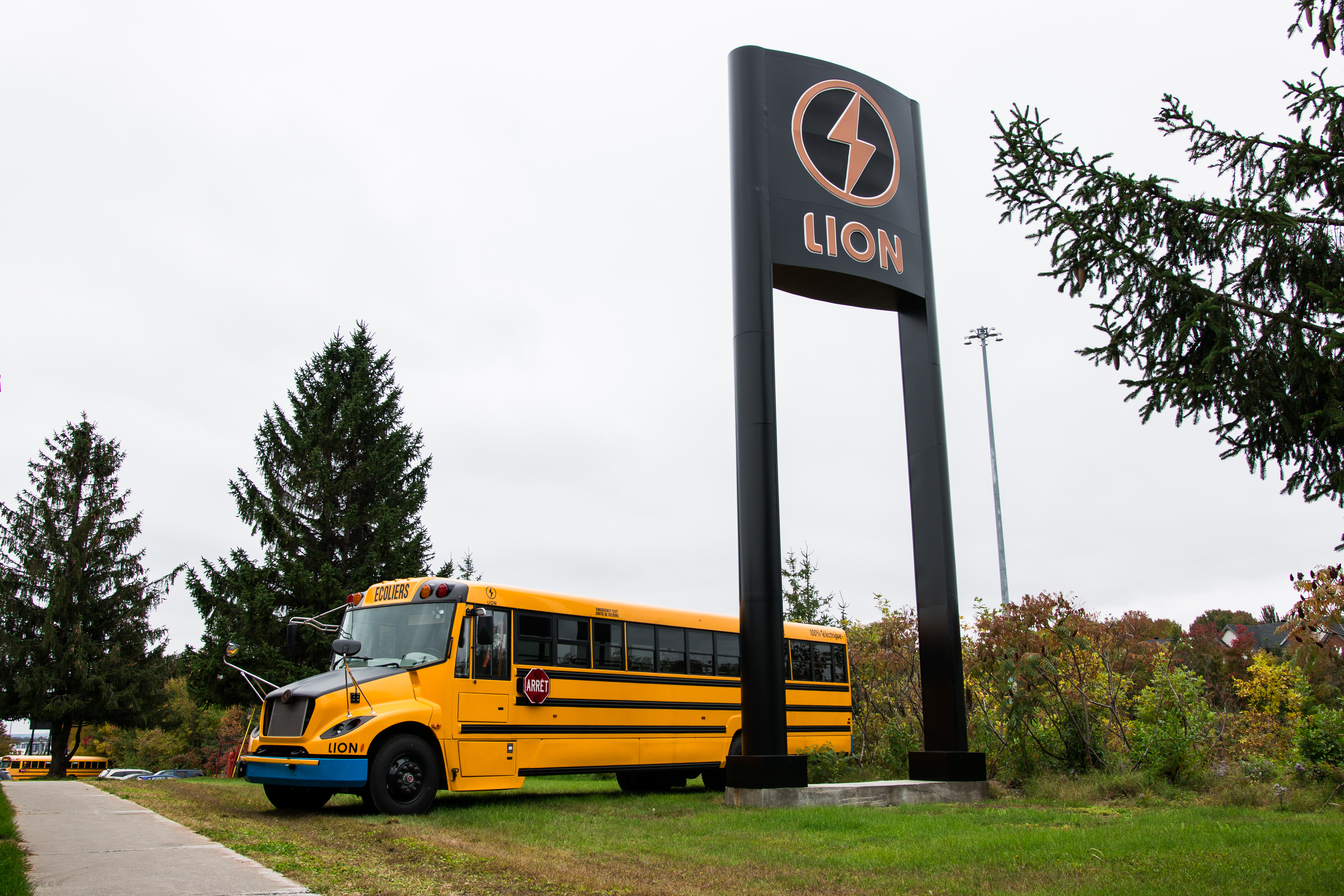 All-Electric Type C school bus